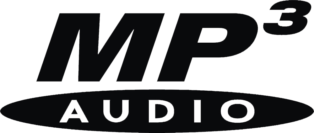 MP3's logo